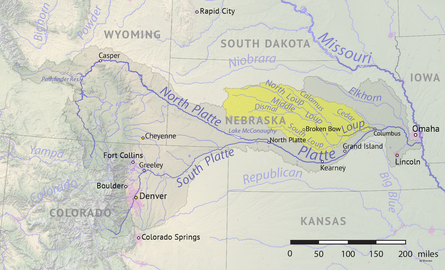 Map of the Loup River drainage basin, a tributary of the Platte River, in the central US. Made using USGS National Map and NASA SRTM data.